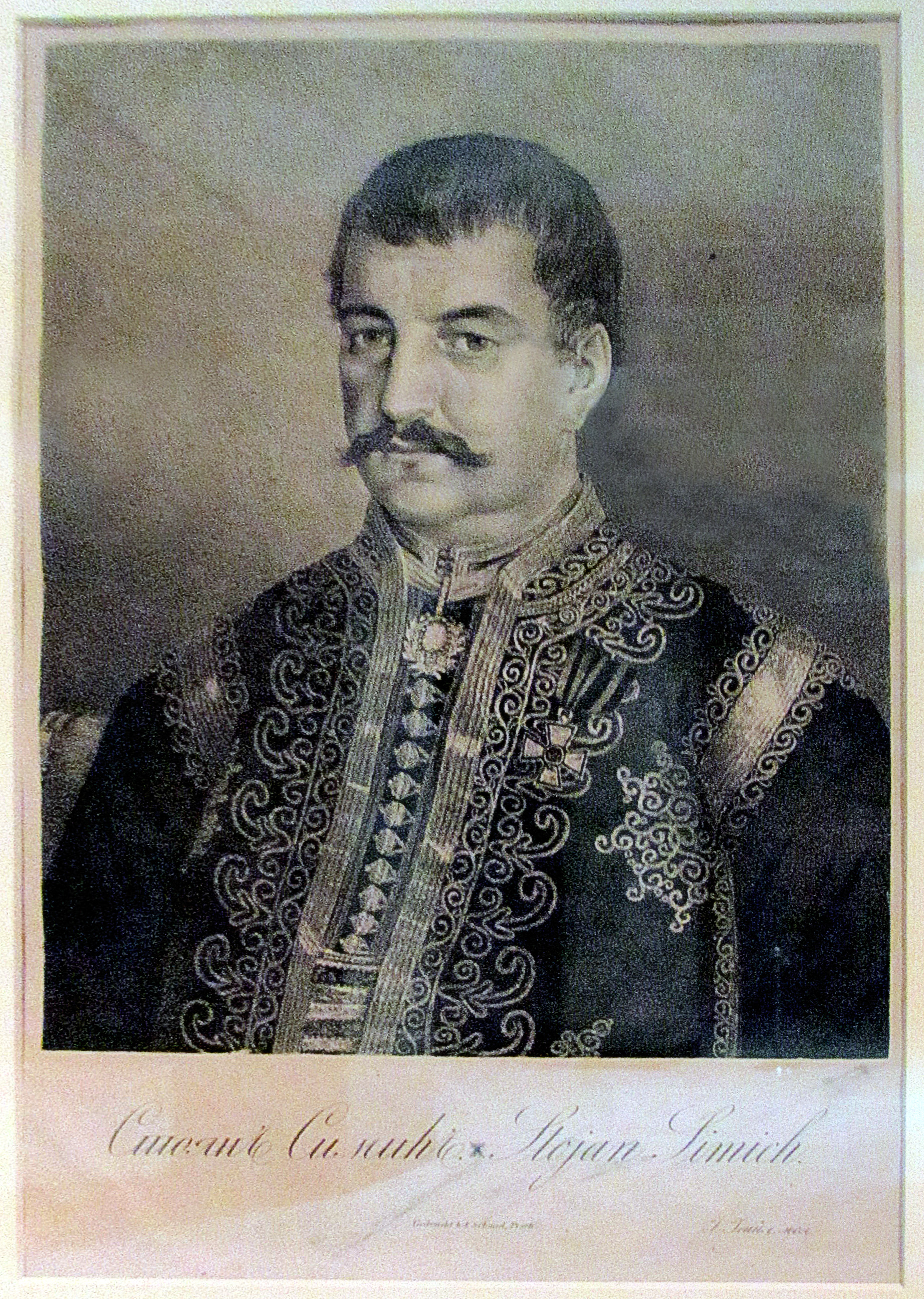 Johann Schmidt, Jovan Isailović, Stojan Simić, 1870, lithograph, National Museum of Serbia